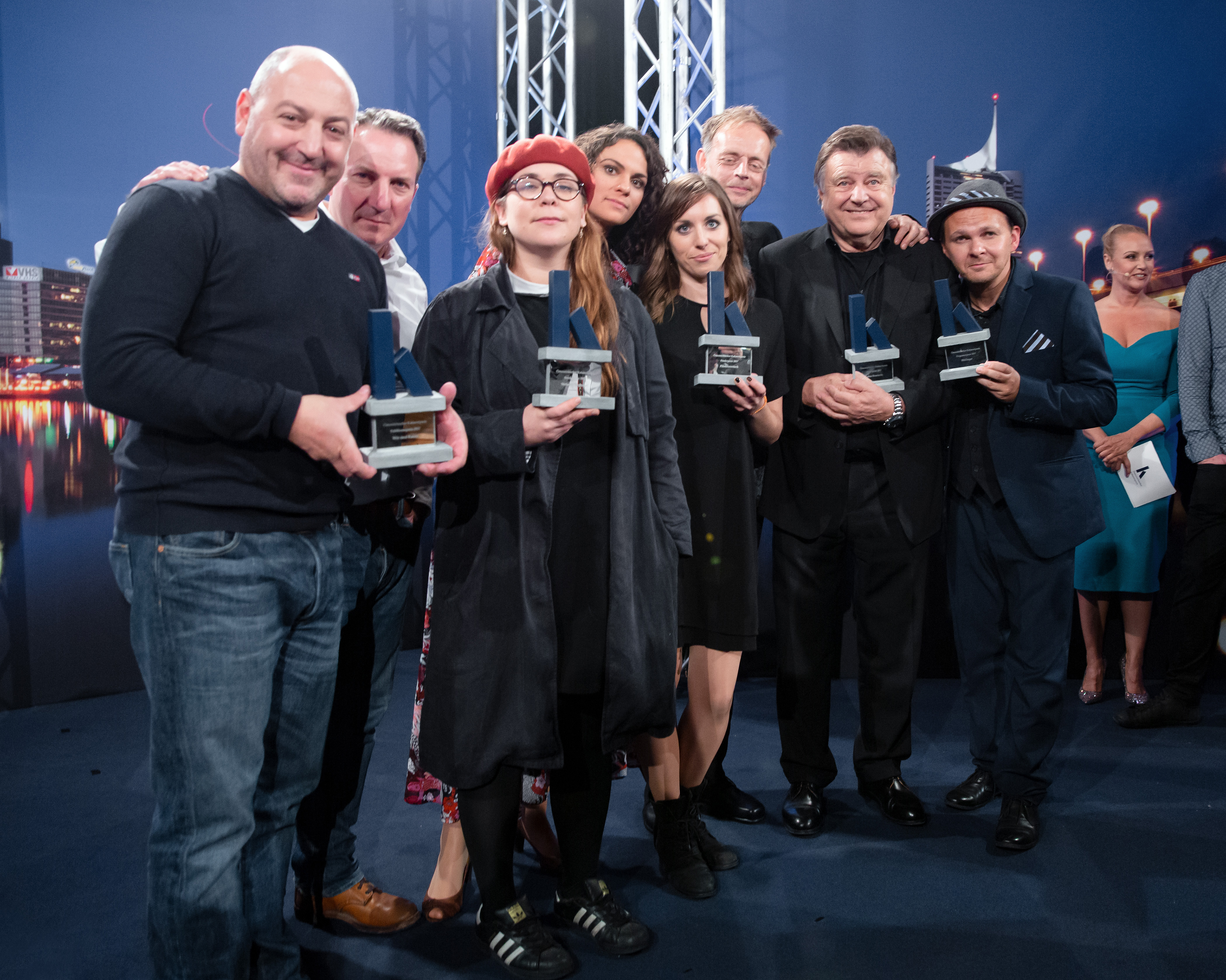 Rudolf Roubinek und Robert Palfrader (Wir sind Kaiser), Stefanie Sargnagel, Flüsterzweieck, Lukas Resetarits and BlöZinger, Austrian Cabaret Award 2017 at Urania in Vienna, Austria.